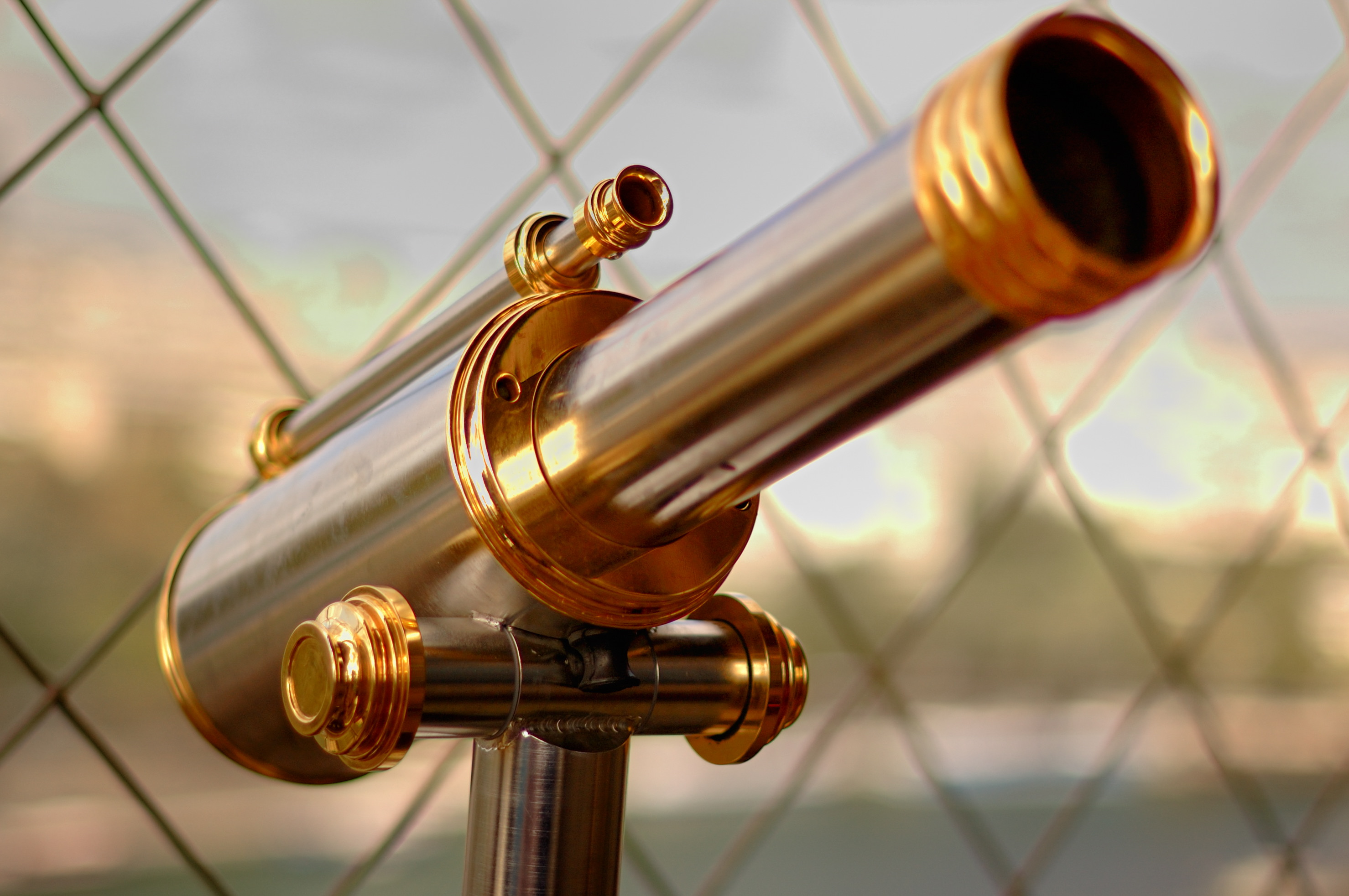 Monocular Telescope at Eiffel Tower In Paris